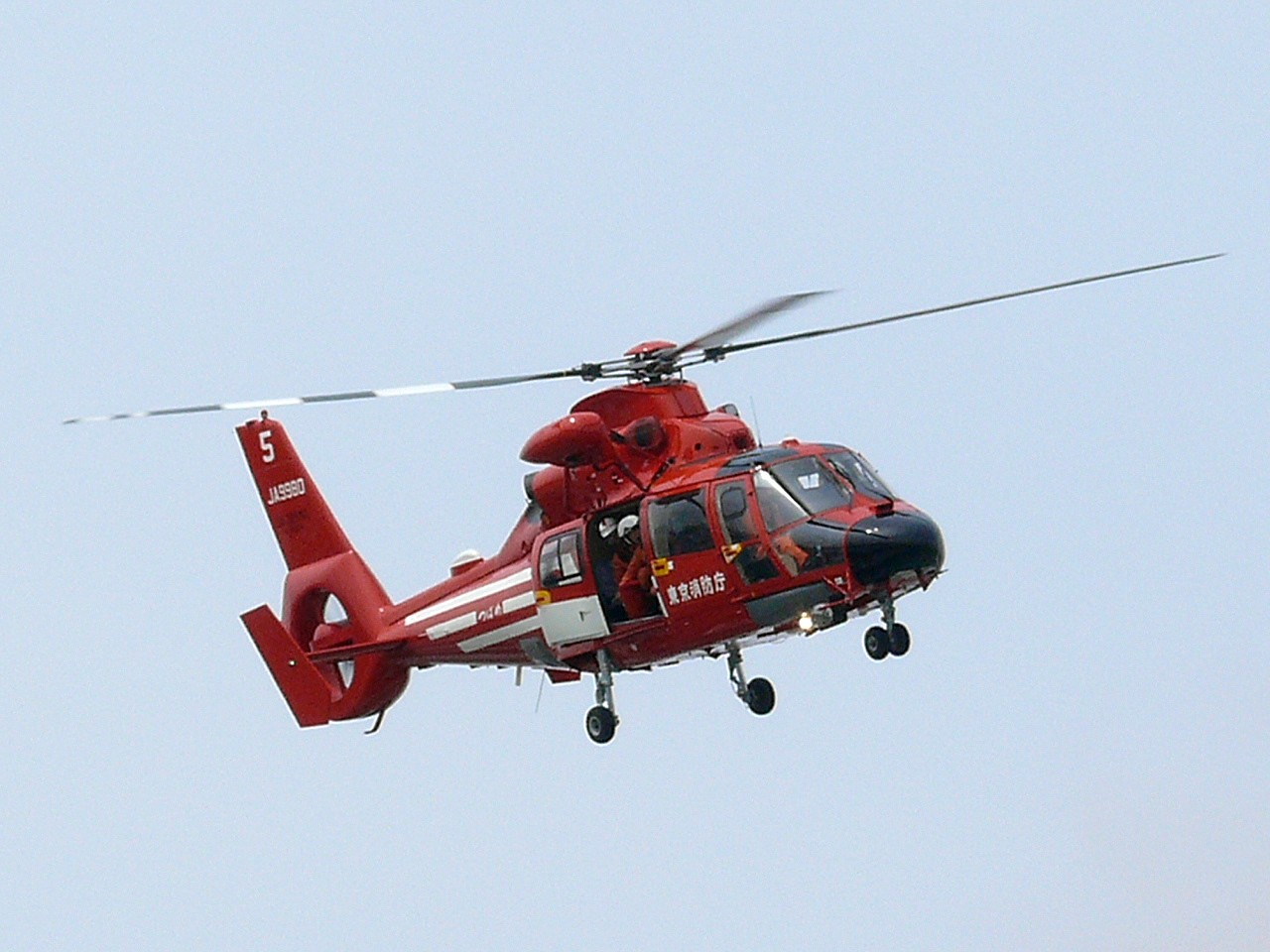 Tokyo Fire Department "Tubame" Eurocopter Dauphin. (Japan)